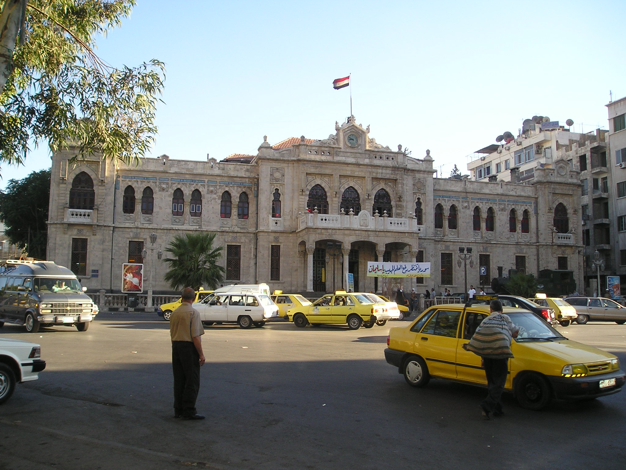 Damascus, Syria: Hejaz railway station, starting point of the Hejaz Railway